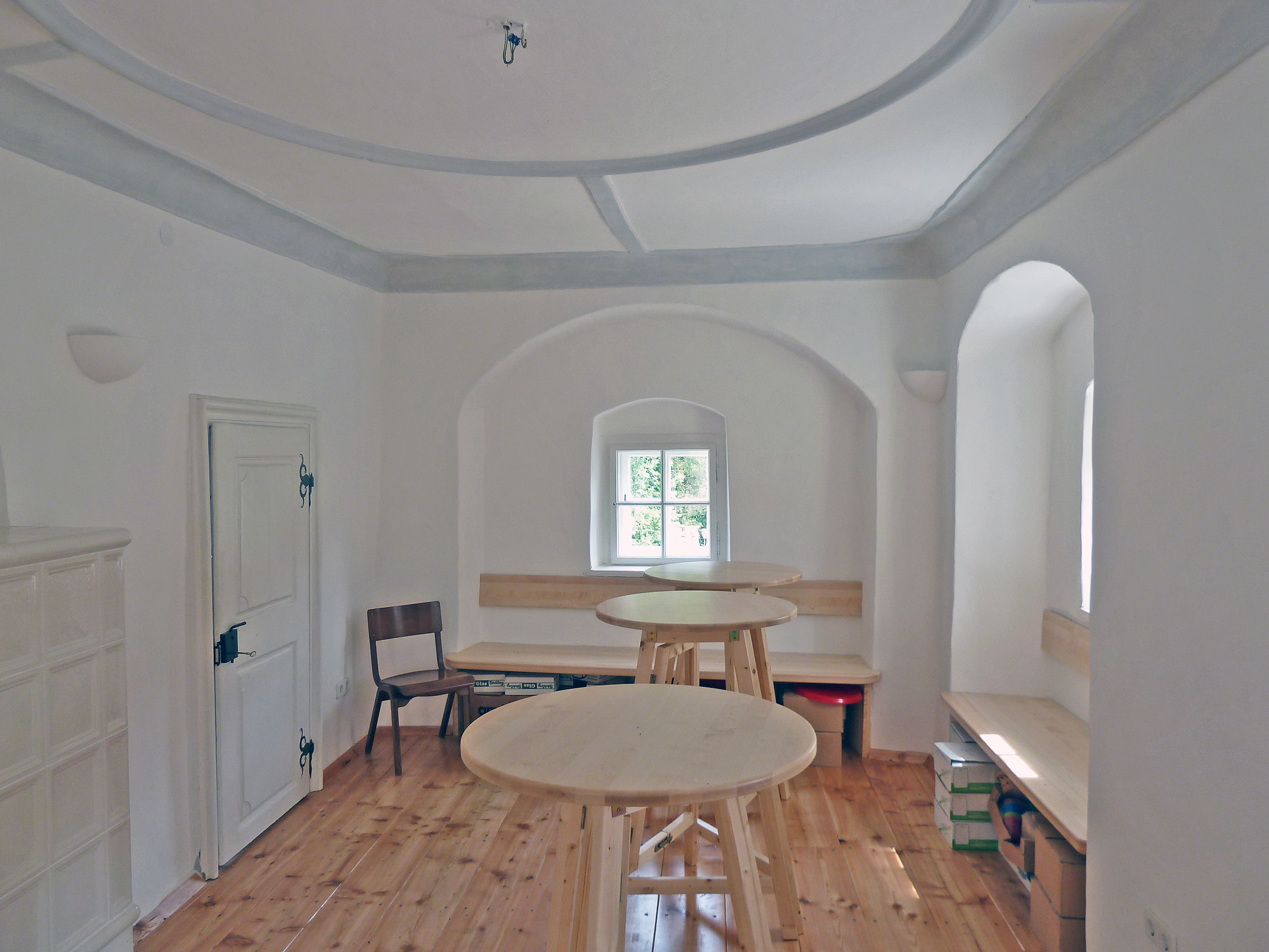 Room Gate-Tower